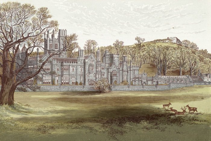 A view of Margam Abbey with hills in the background and deer grazing in the foreground.